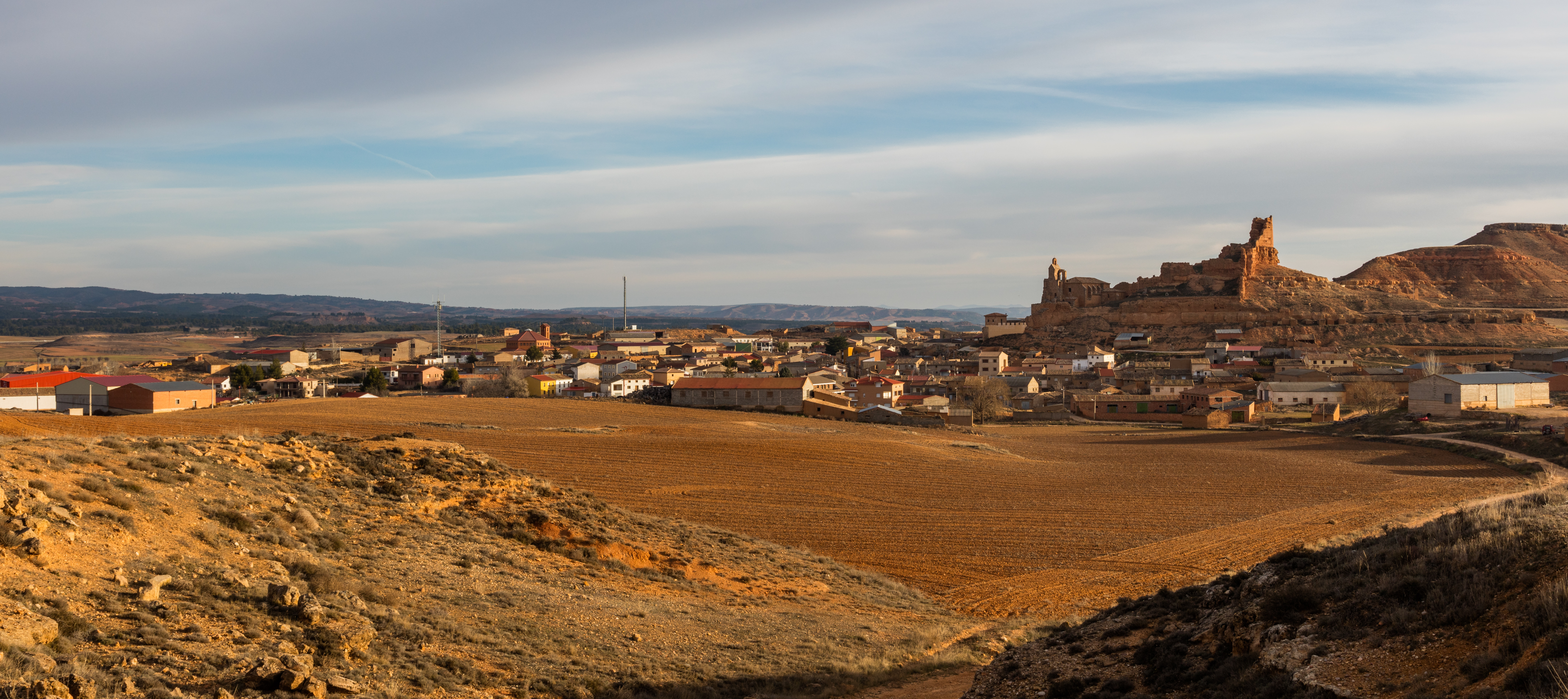 Monreal de Ariza, Zaragoza, Spain